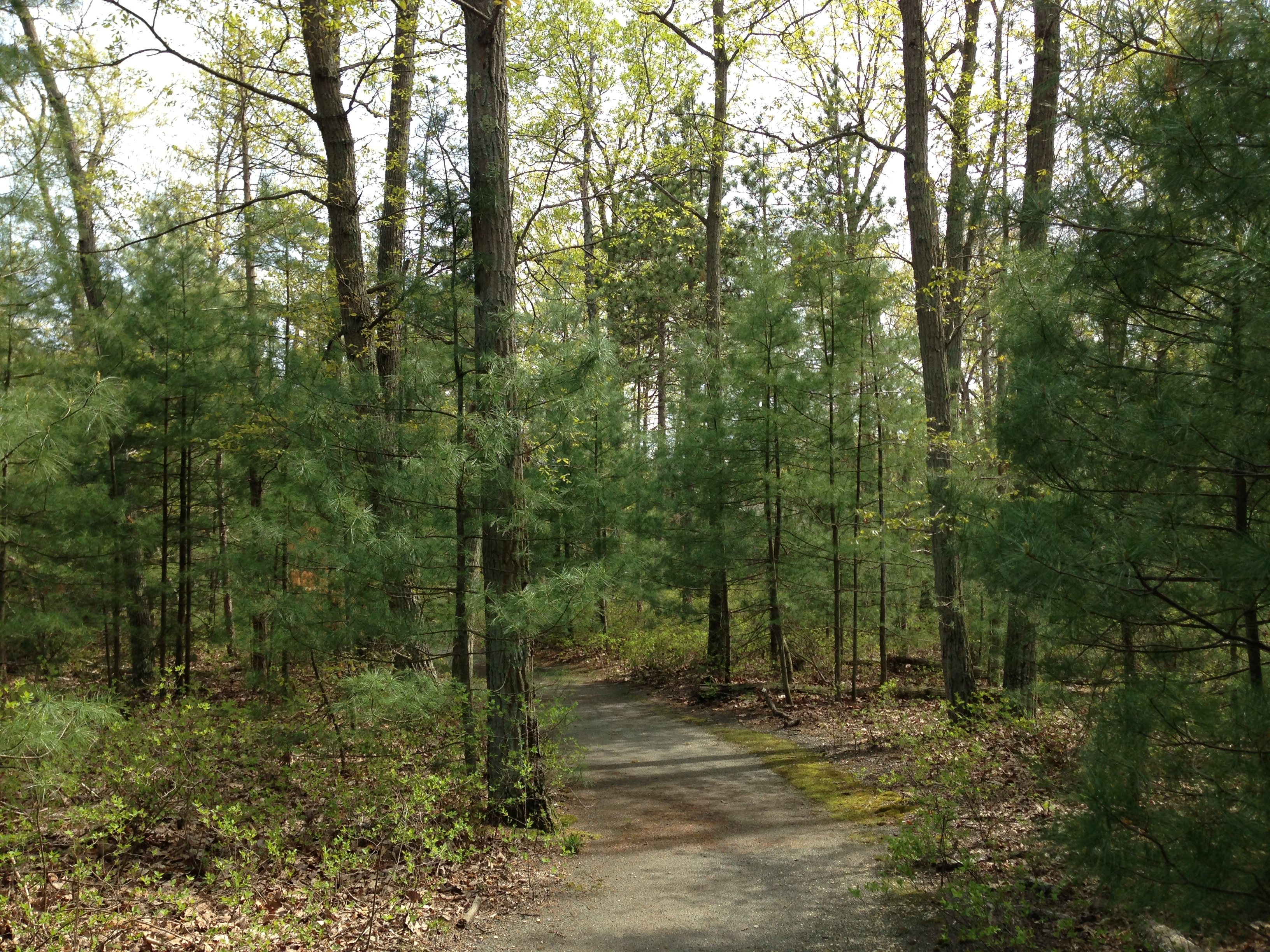 White Pine sapling grove near the end of the Cranberry Trail in Brendan T. Byrne State Forest on May 10th 2013